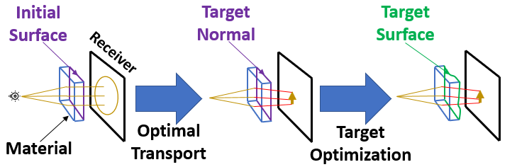 target optimization